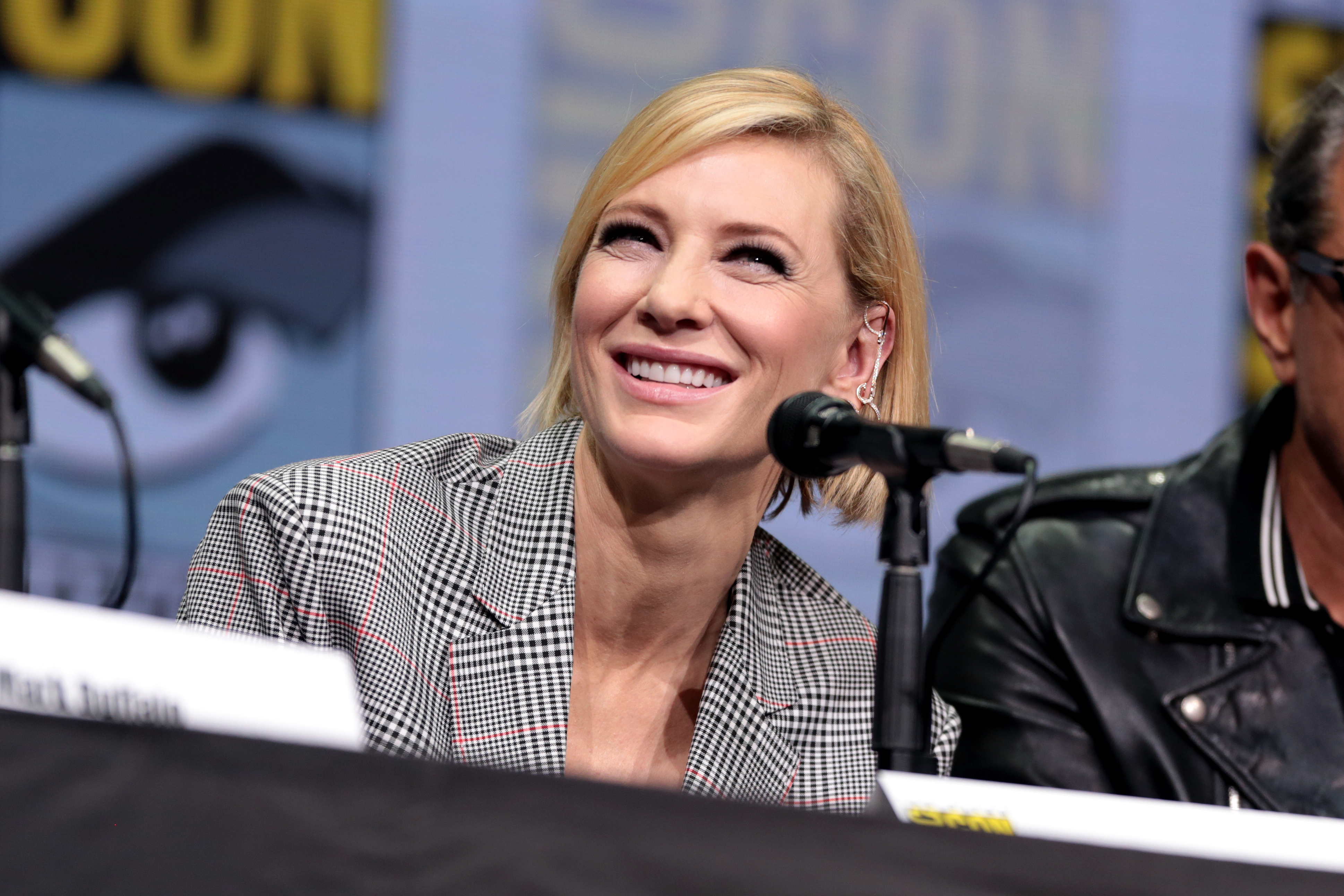 Cate Blanchett speaking at the 2017 San Diego Comic Con International, for "Thor: Ragnarok", at the San Diego Convention Center in San Diego, California.